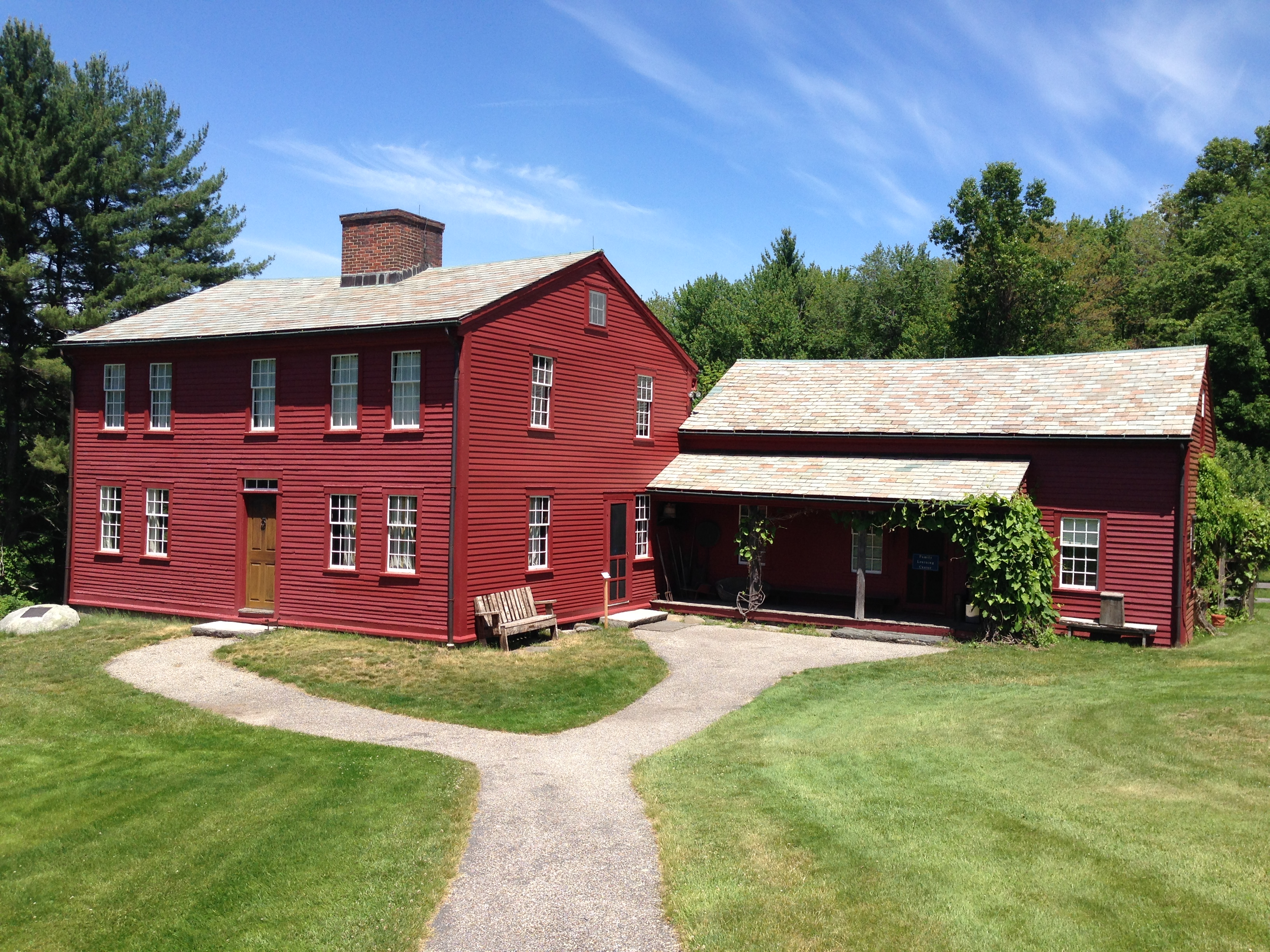 Exterior view of the Alcott House at Fruitlands in Harvard, Massachusetts, 2015